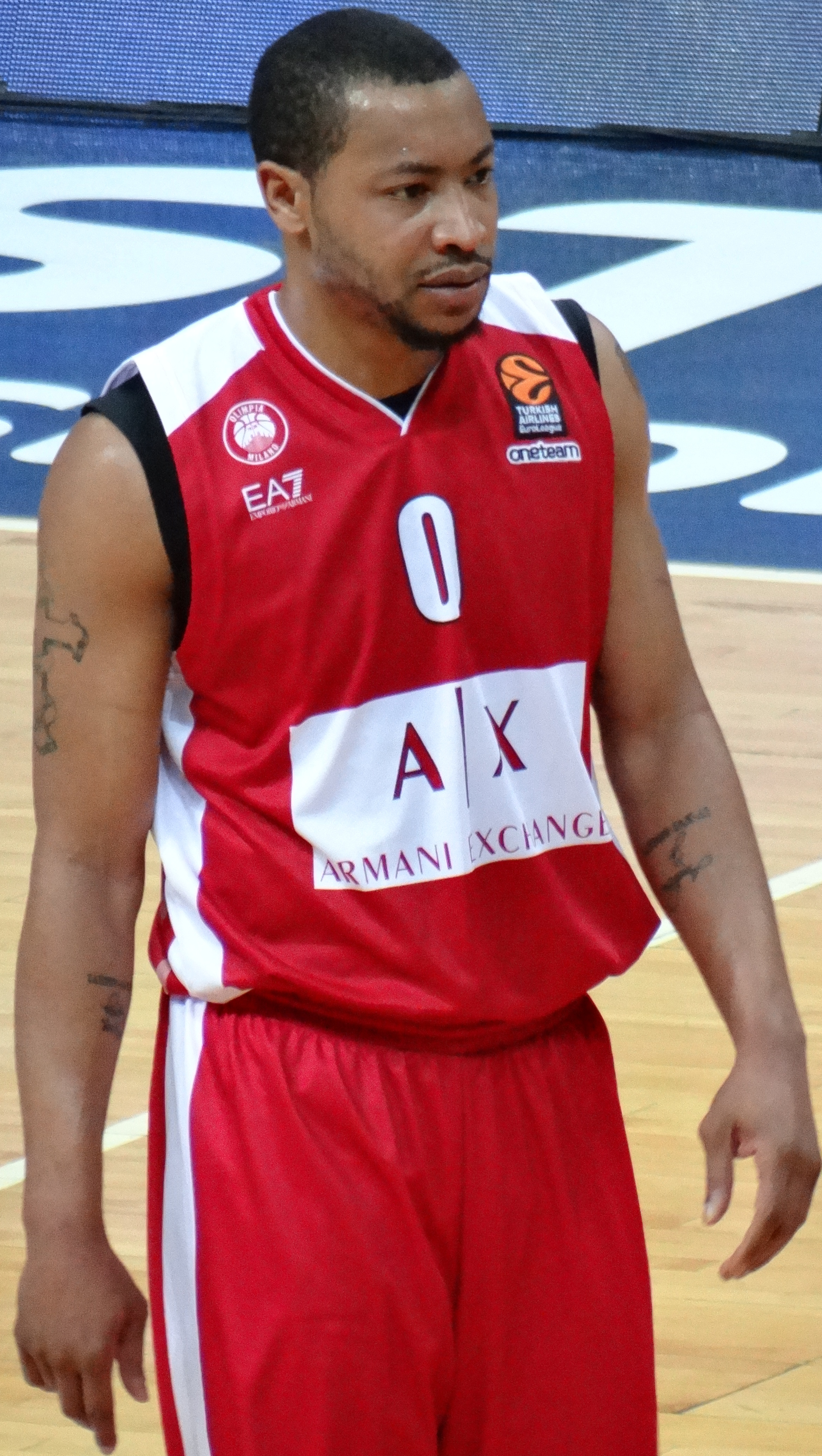 Andrew Goudelock 0 AX Armani Exchange Olimpia Milan 20180222